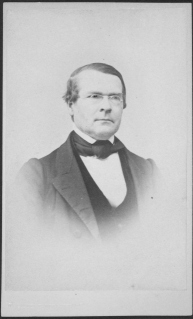 Photograph of the Finnish professor of theology, Axel Fredrik Granfelt (1815–1892).